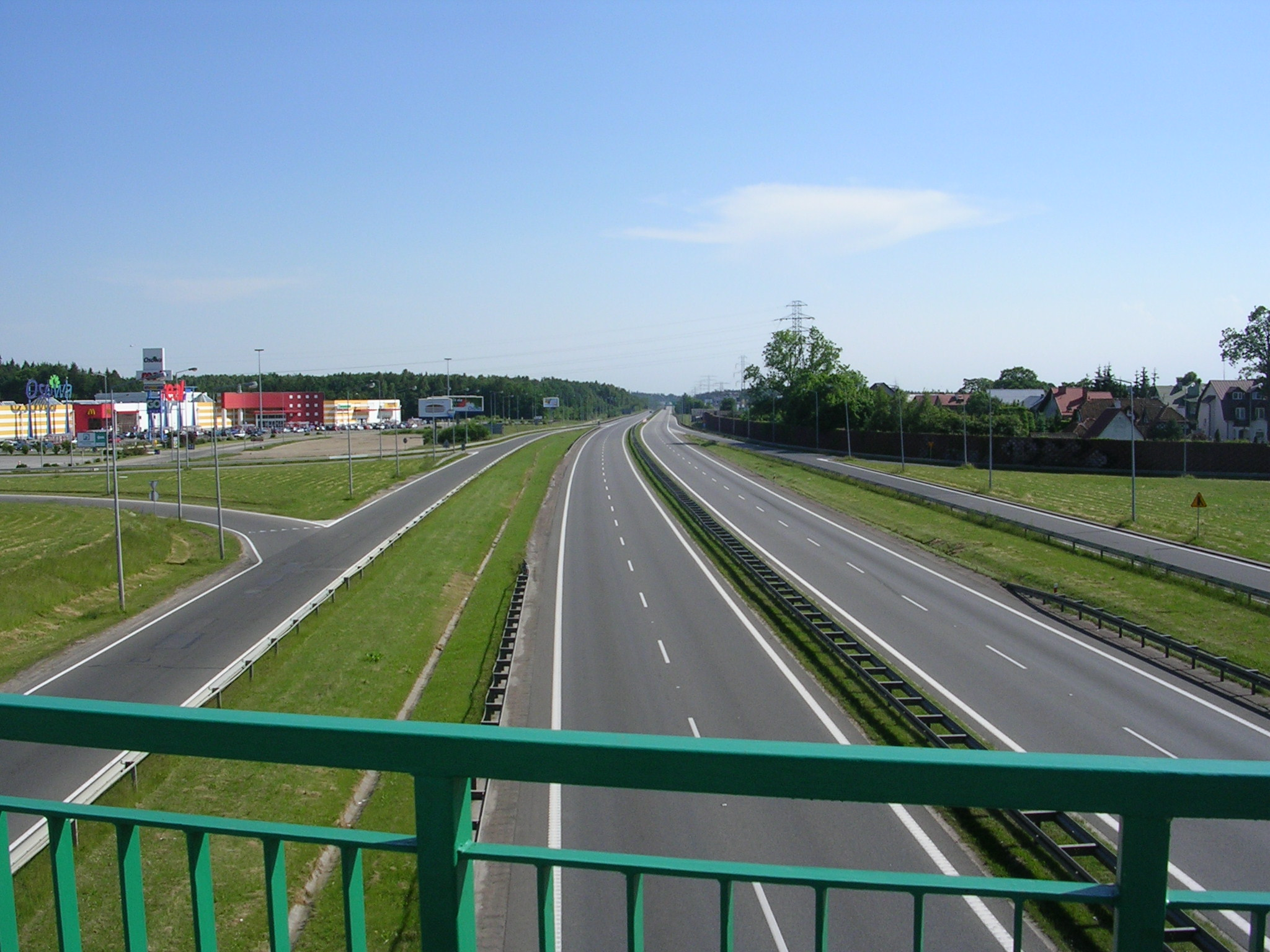 Security measures during George W. Bush visit in Poland